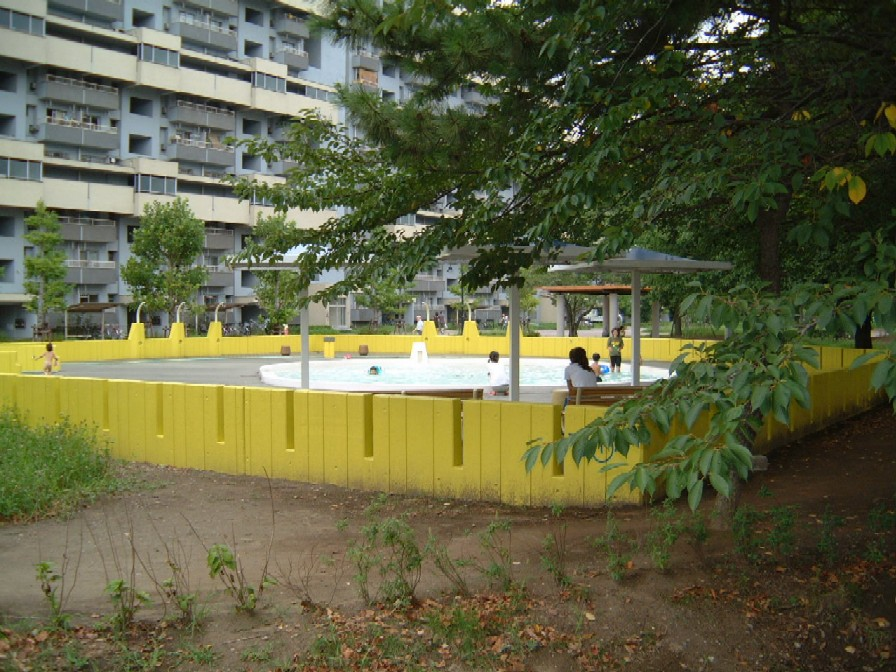 Swimming pool in the Misato Danchi (Misato Apartment House Complex), Misato City, Saitama Prefecture, Japan